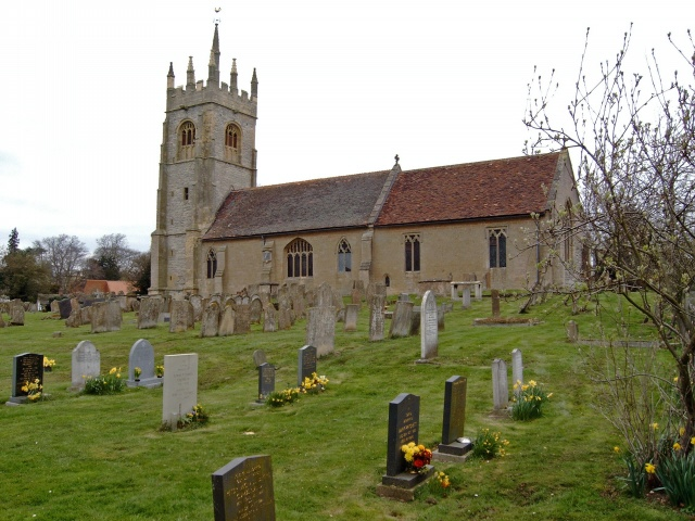 Church of St. Peter & St. Paul, Upton. The 13th century church stands on a hill with far-reaching views of the Trent valley. The church is currently undergoing a major refit of its bell installation, to make its existing 4 bells ringable and augmenting them to 6 bells by adding another 2 specially cast at Taylors Bell Foundry in Loughborough.